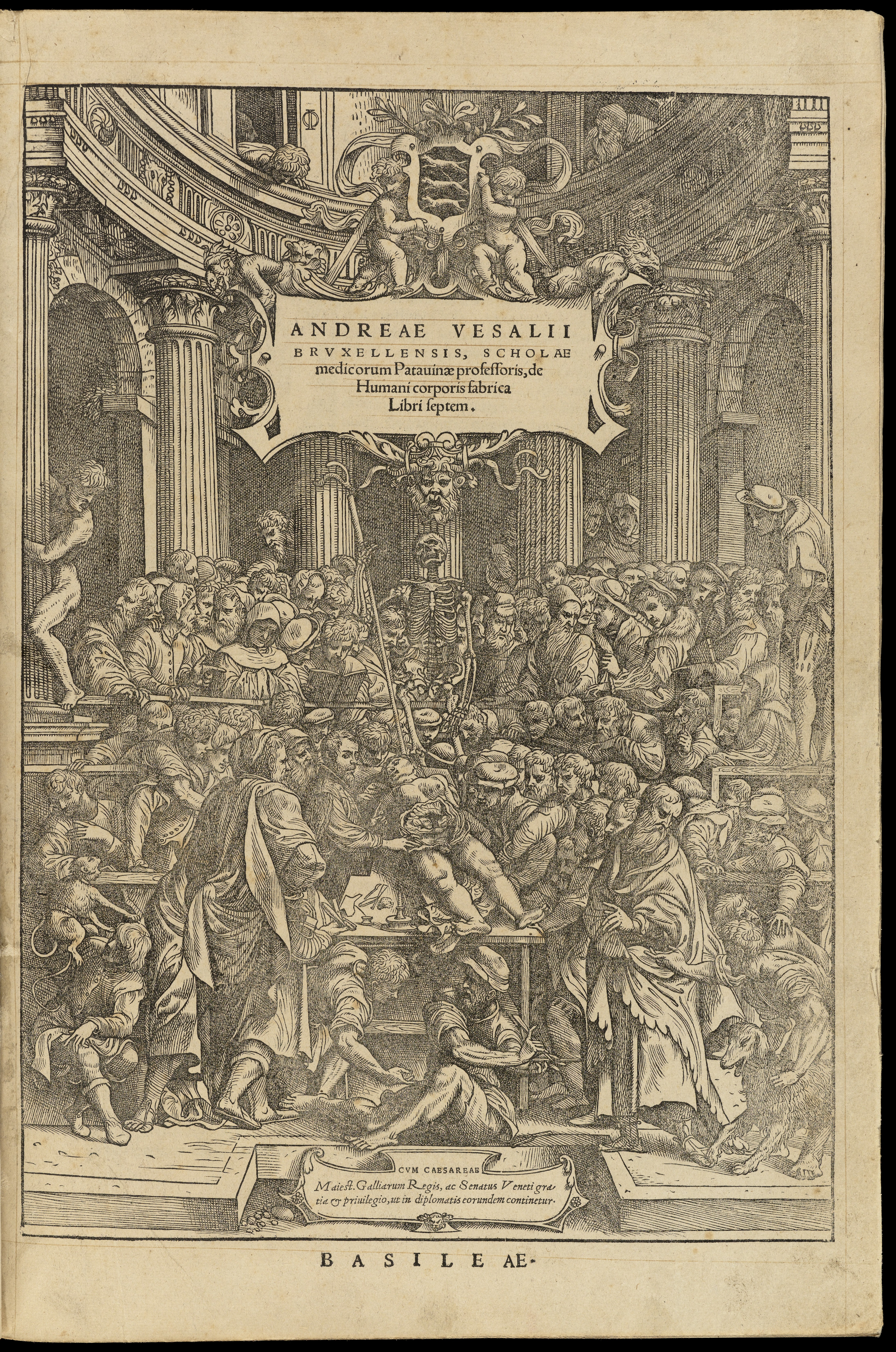 Andreae Vesalii Bruxellensis, scholae medicorum Patauinae professoris De humani corporis fabrica libri septem ... Rare Books Keywords: Anatomy